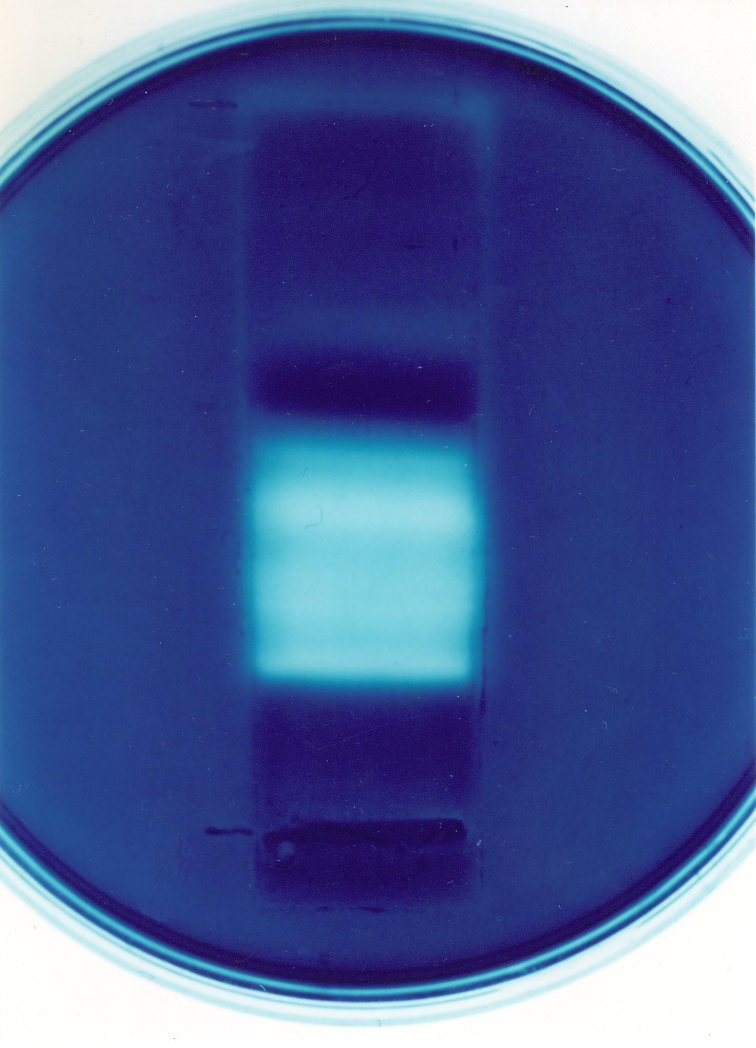 Zymogram of endopeptidases from Plasmodium knowlesi after extraction and electrophoresis, see Hempelmann, E., Wilson, R.J.M. (1980) "Endopeptidases from Plasmodium knowlesi", Parasitology 80, 323-330 PMID 6768047 See also Hempelmann, E., Putfarken, B., Rangachari, K., Wilson, R.J.M. (1986) "Immunoprecipitation of malarial acid endopeptidase" Parasitology 92, 305-312 PMID 3520446